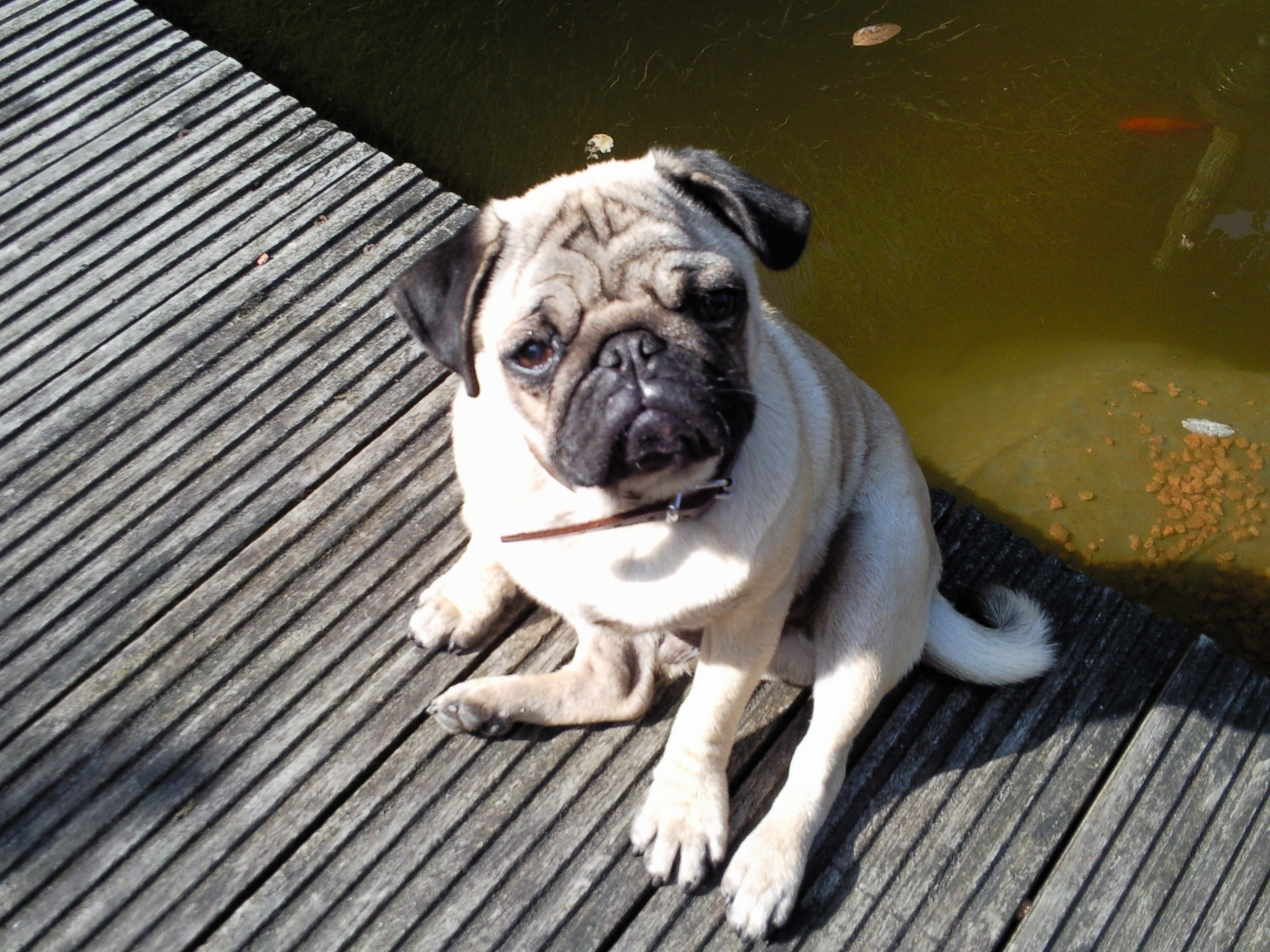 That's a nice little....